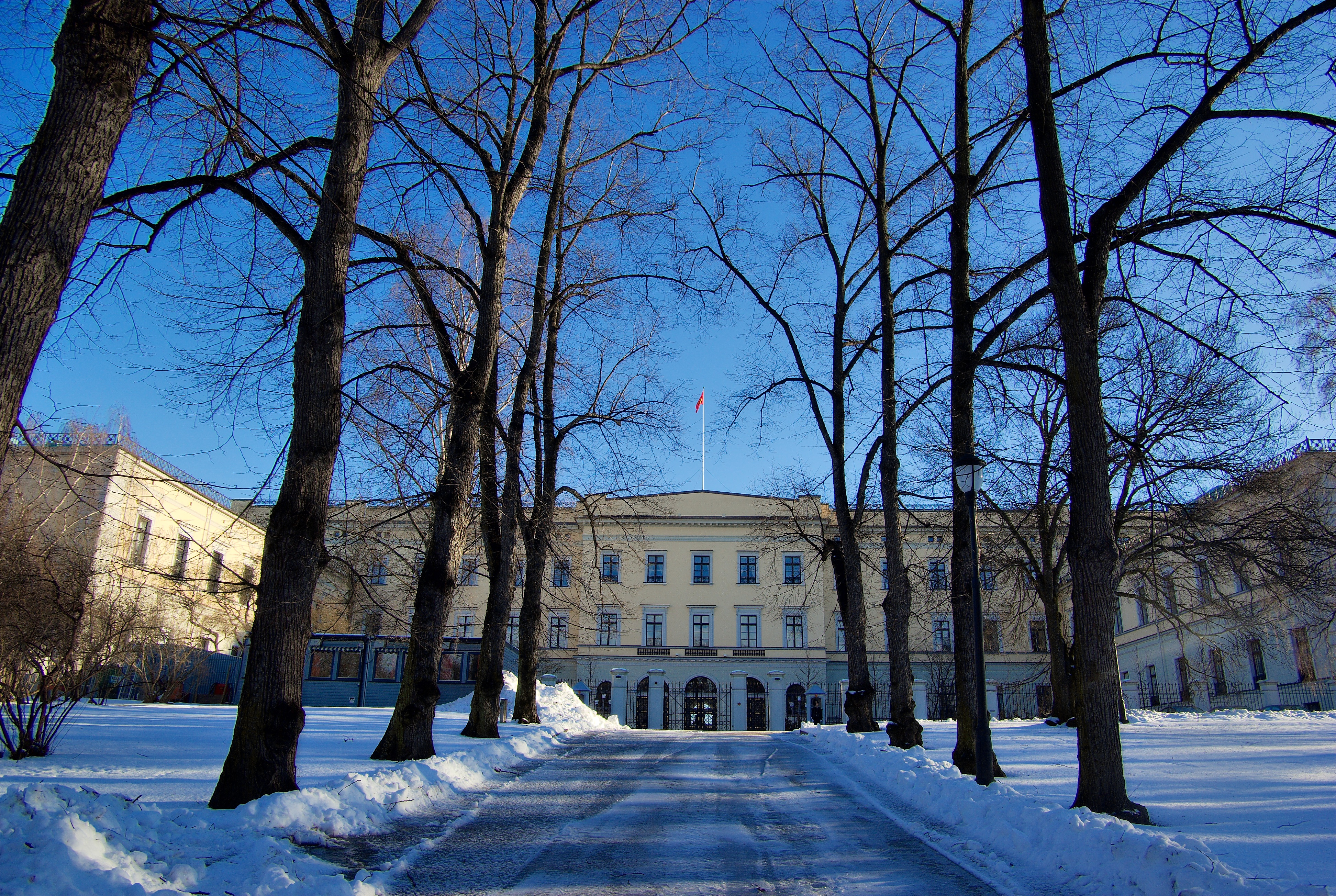 King's castle (backside). Oslo, Norway.